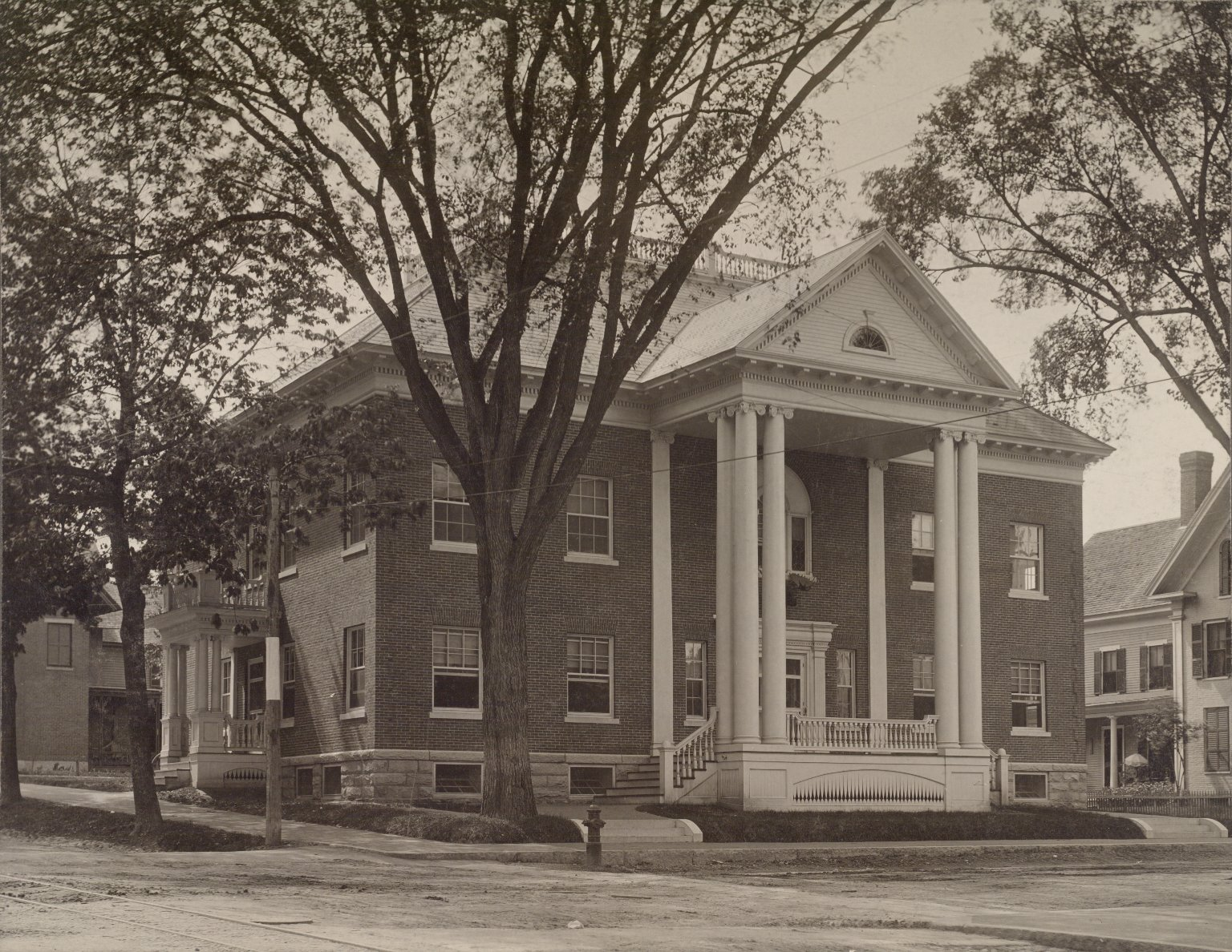 Collection: A. D. White Architectural Photographs, Cornell University Library Accession Number: 15/5/3090.01606 Title: Wonalancet Clubhouse Photographer: W. H. Kimball & Sons Building Date: ca. 1890-ca. 1910 Location: North and Central America: United States; New Hampshire, Concord Materials: gelatin silver print Style: Colonial Revival Provenance: Transfer from the College of Architecture, Art and Planning Persistent URI: There are no known U.S. copyright restrictions on this image. The digital file is owned by the Cornell University Library which is making it freely available with the request that, when possible, the Library be credited as its source. We had some help with the geocoding from